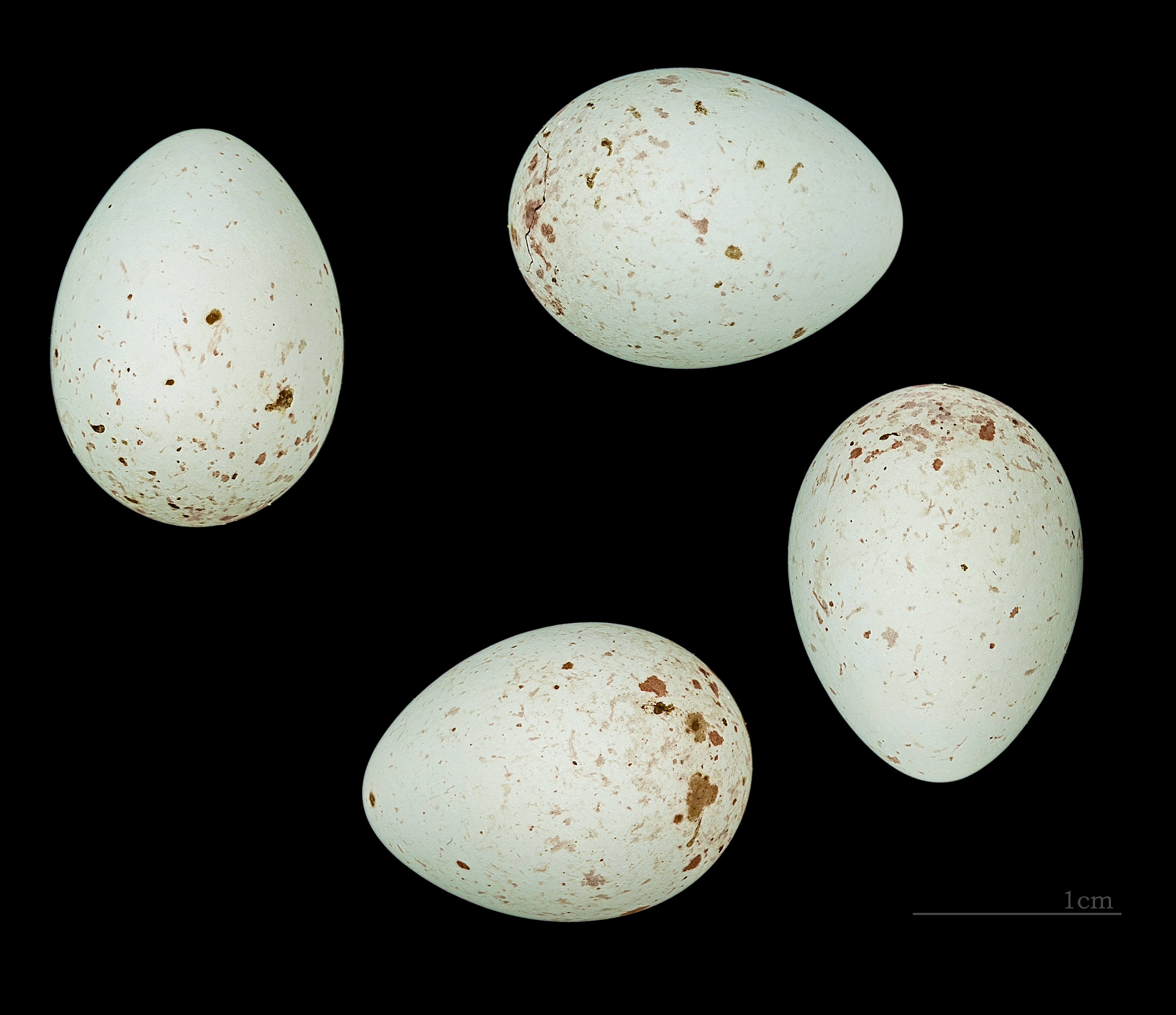 Egg of European Goldfinch. Collection of Jacques Perrin de Brichambaut.